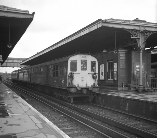 This shows a 'Tadpole' unit on a rainy day at the unrebuilt Guildford station. The 'narrow' motor car is at the end nearest the photographer, and the 'wide' control trailer at the other end can clearly be seen.